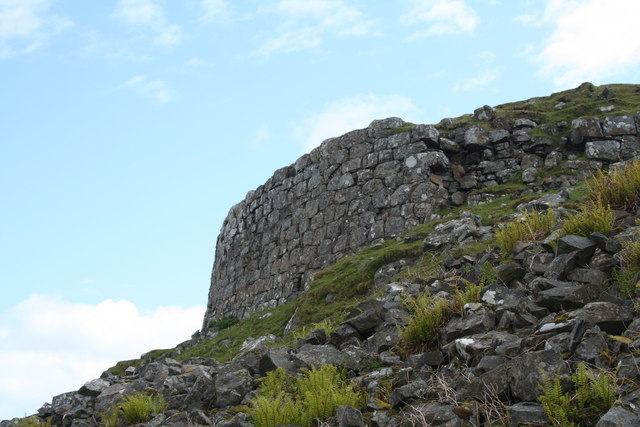 Dun Beag Broch Dun Beag overlooks Loch Bracadale and is in good condition - well worth a visit.